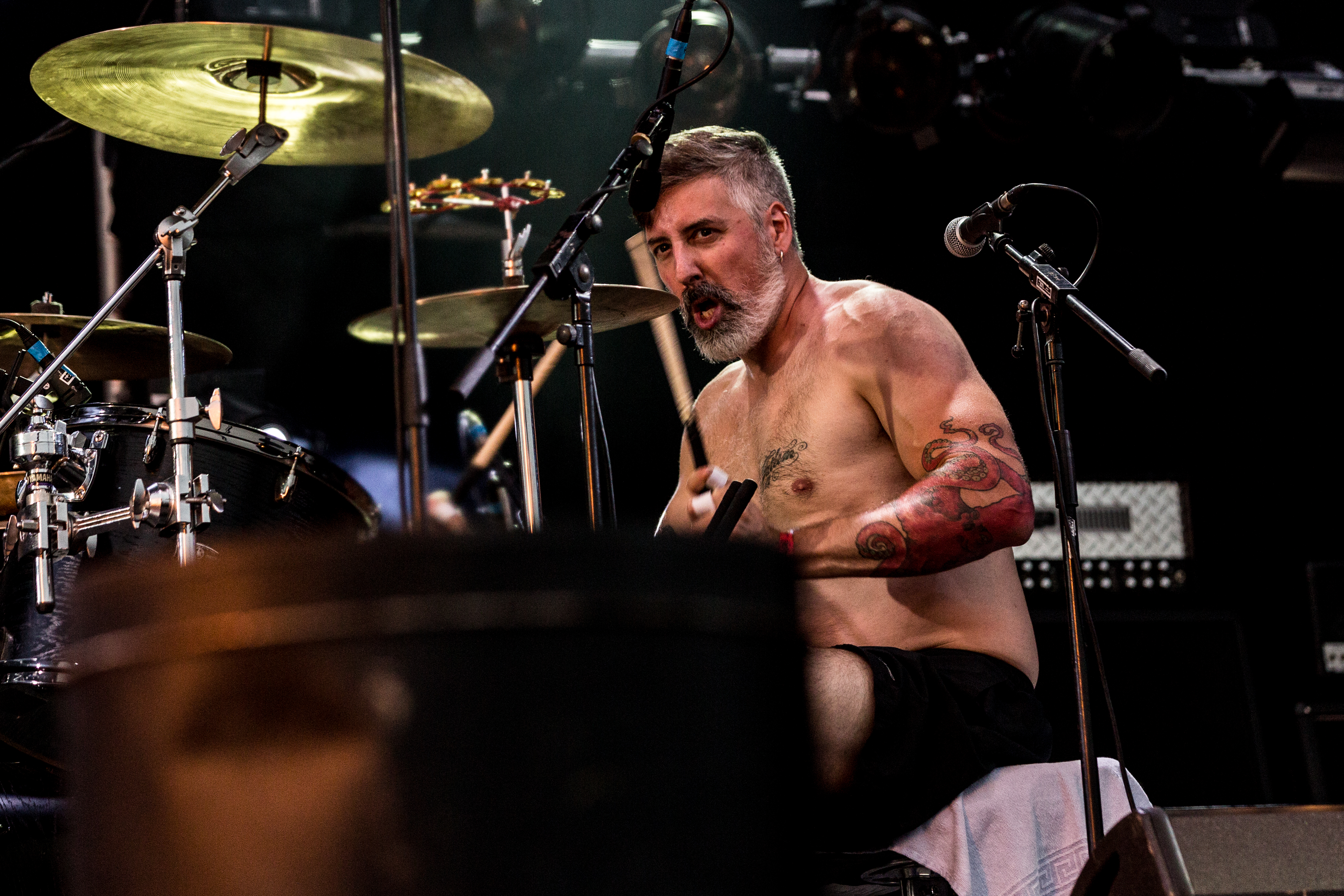 The German sludge metal band Mantar at the Party.San Metal Open Air 2016 in Obermehler-Schlotheim/Germany.